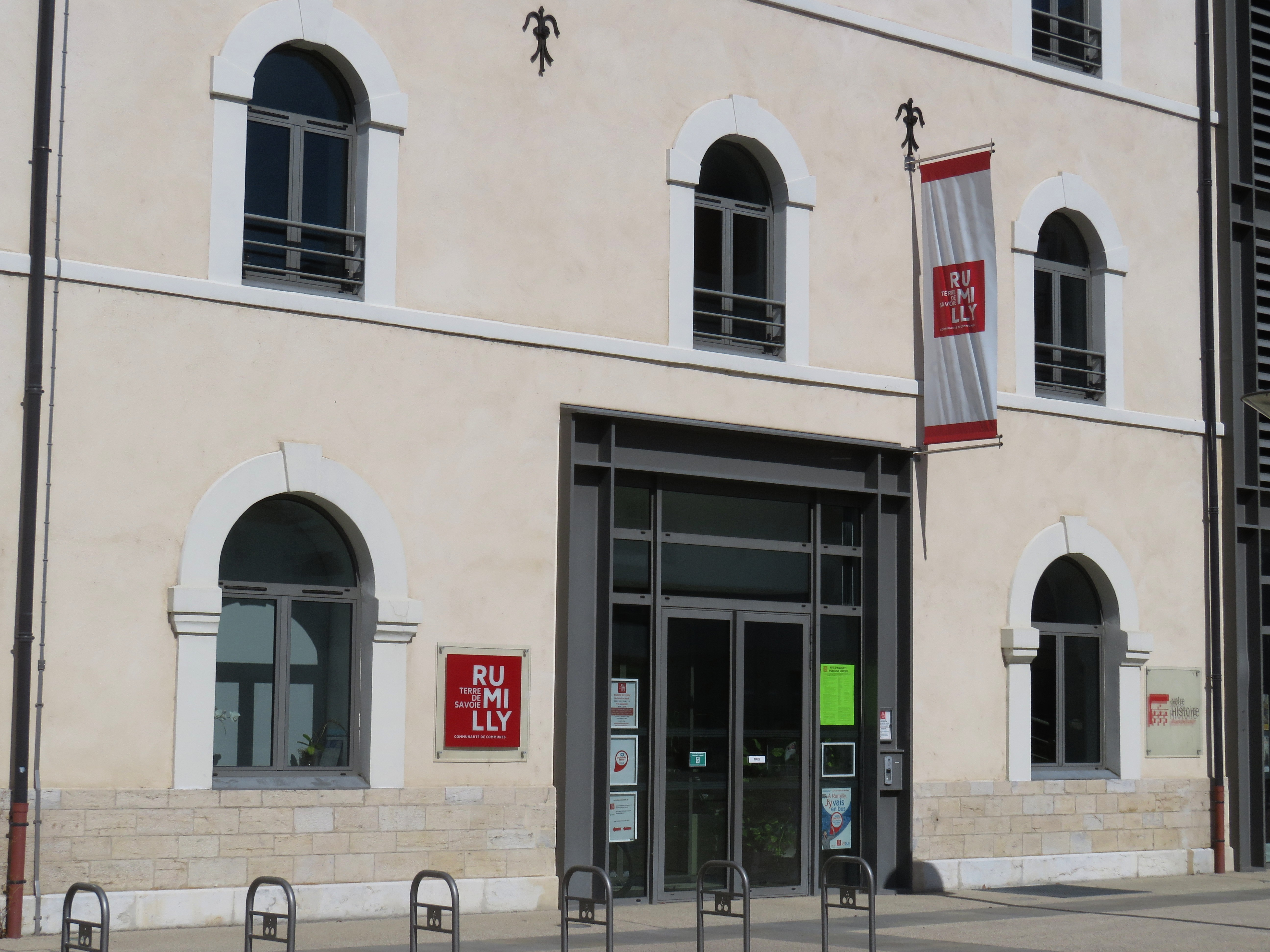 The head office of the French agglomeration community Rumilly Terre de Savoie (Rumilly, France) on September 28, 2019.